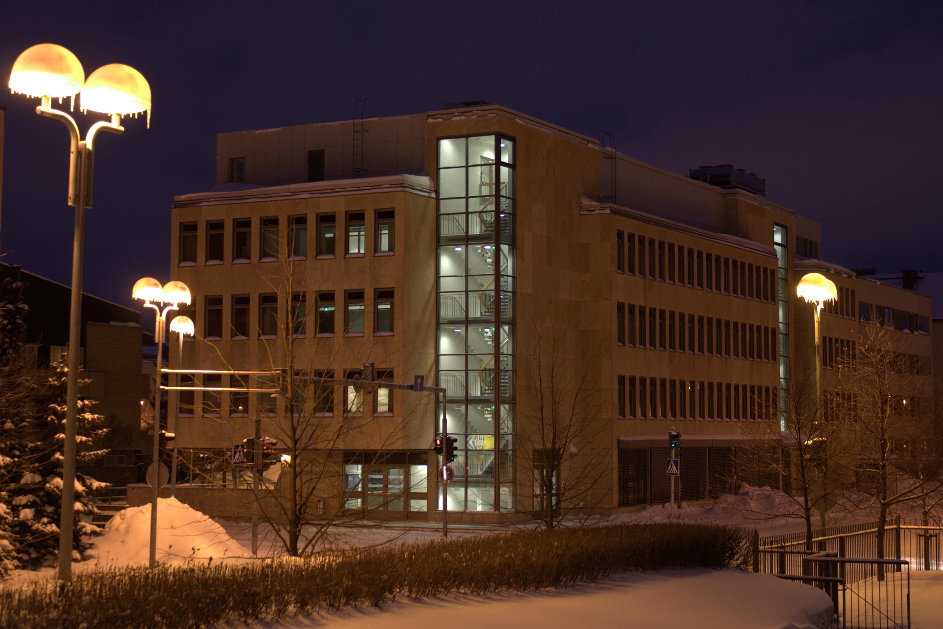 The main offices of the parish union in Oulu. The buiding was designed by architects Eero Huotari and Martti Väisänen and it was completed in 1980.